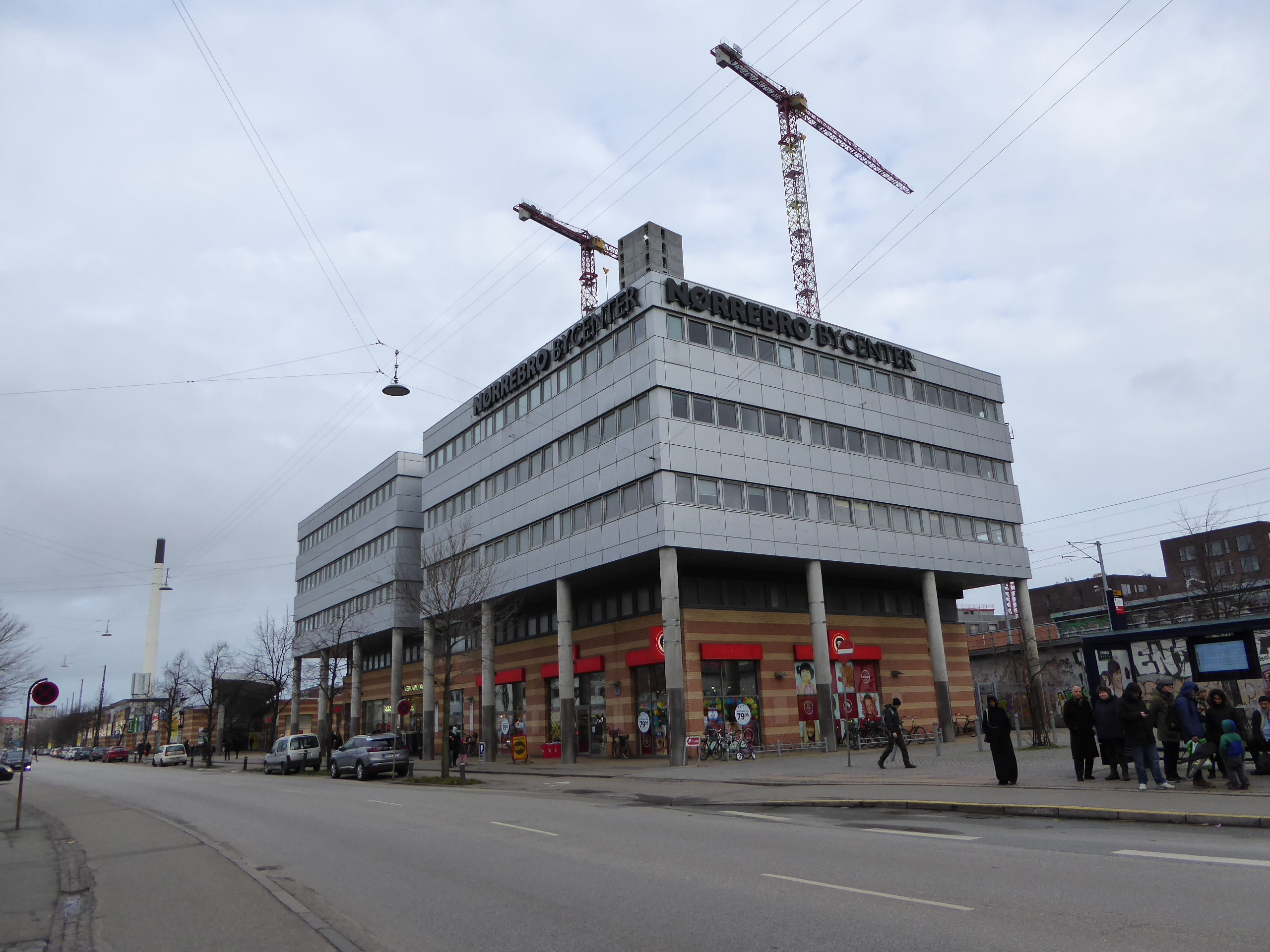 The shopping mall Nørrebro Bycenter at Lygten in Nordvest in Copenhagen.